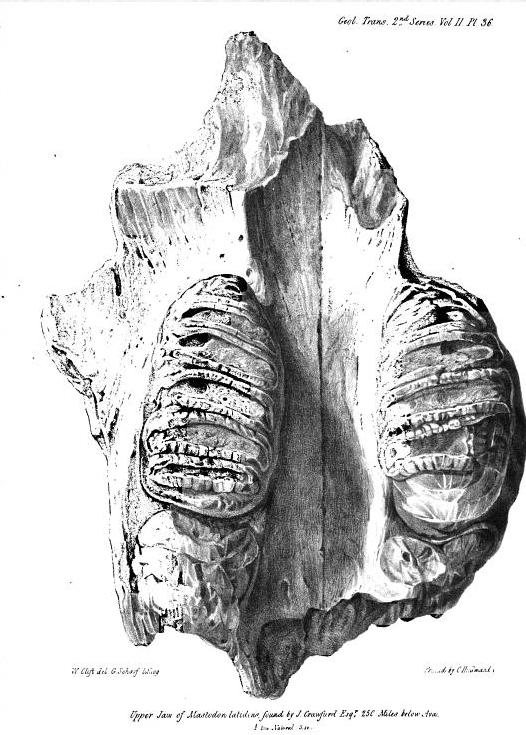 "Mastodon" jaw, collected by John Crawfurd in Burma in 1826. It was found at Yenangyaung. The engraving is from the Transactions of the Geological Society, for a paper of William Clift (in a separate volume). The species is now identified as Stegolophodon latidens.